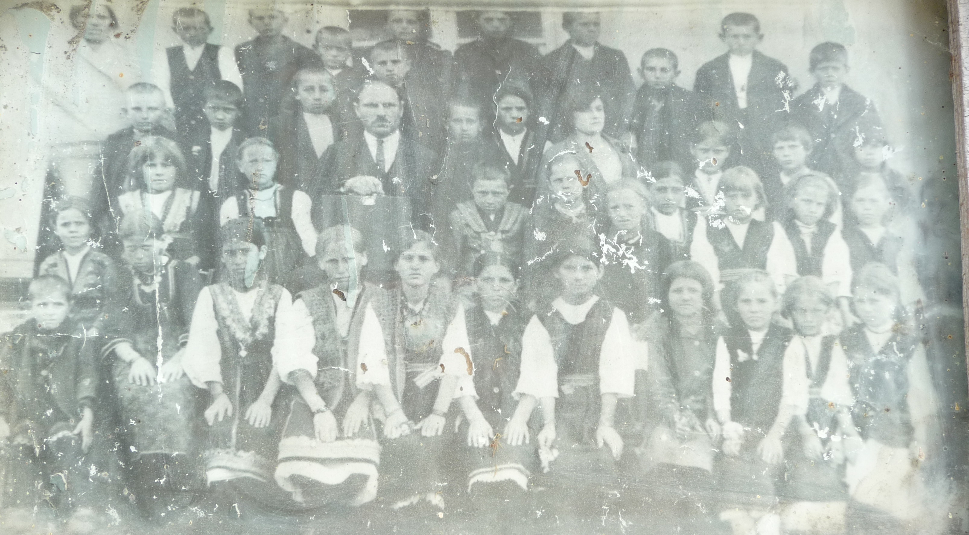 Students and teachers in the primary school in the Chepurlyantsi, circa 1928.